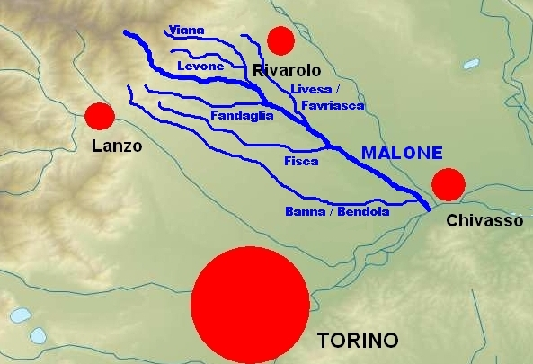 Torrente Malone (Piedmont, Italy): main tributaries